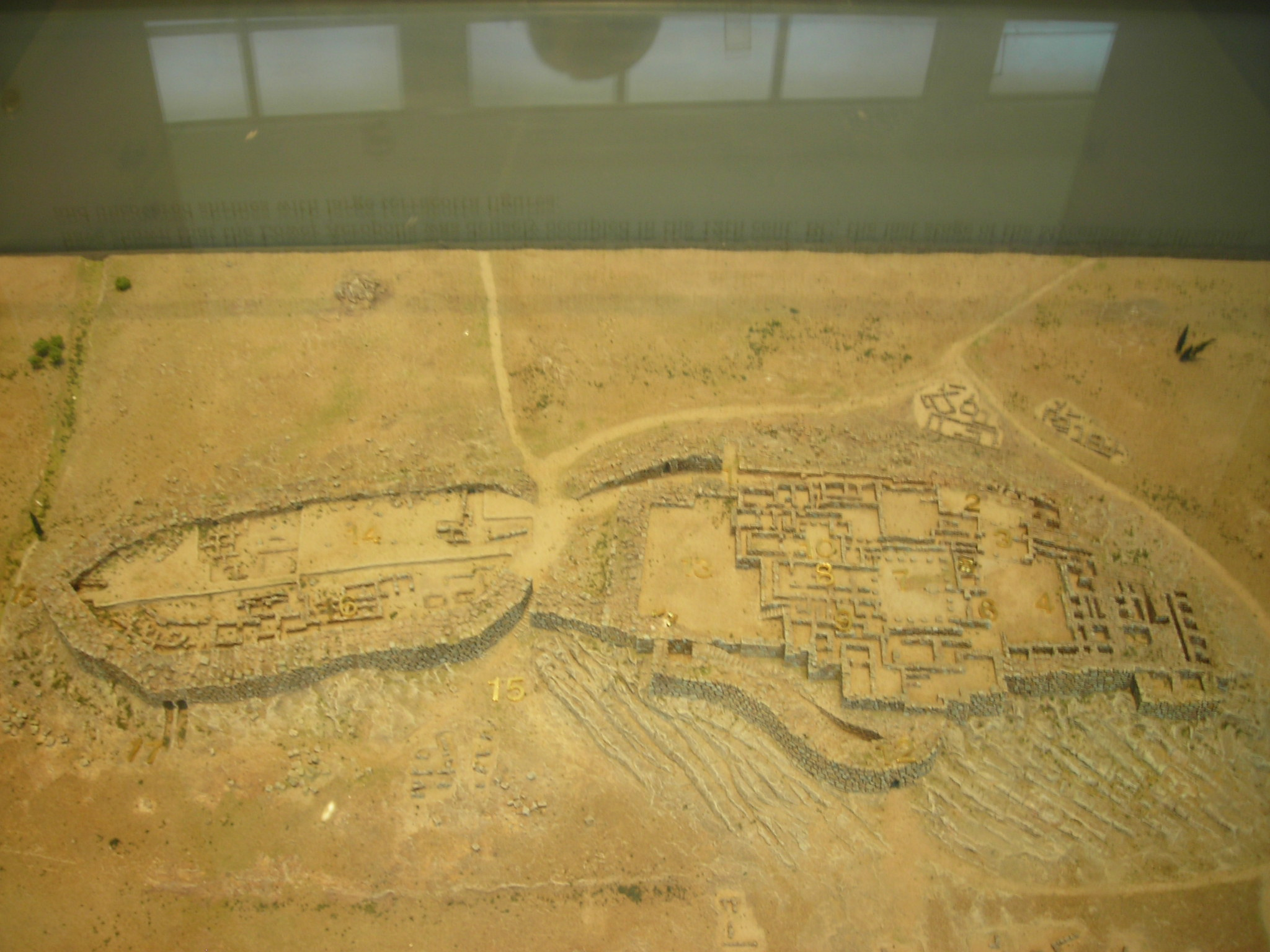 Scale model of the acropolis of Tyrins in the National Archaeological Museum of Athens.